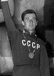 Left-right: Allan Jay, Giuseppe Delfino, Bruno Habārovs at the 1960 Olympics